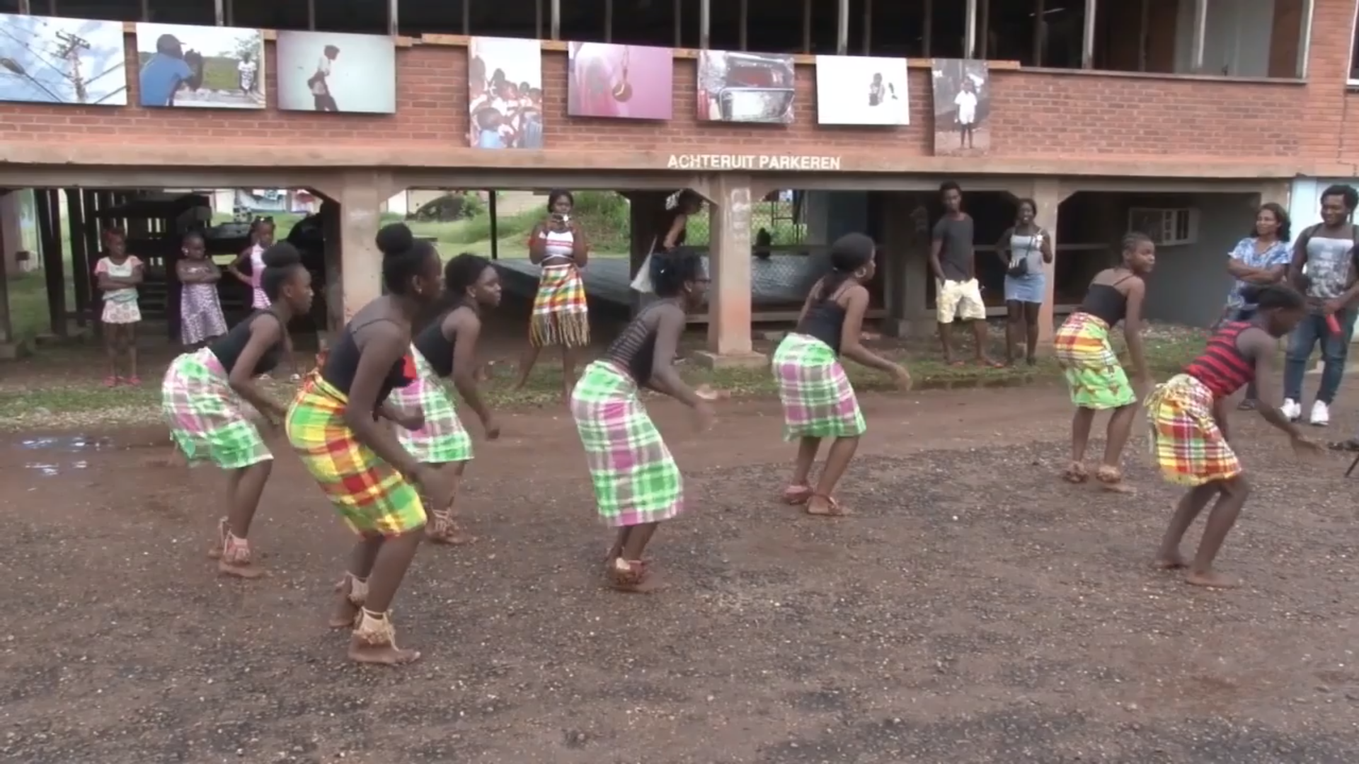 Tembe Art Studio